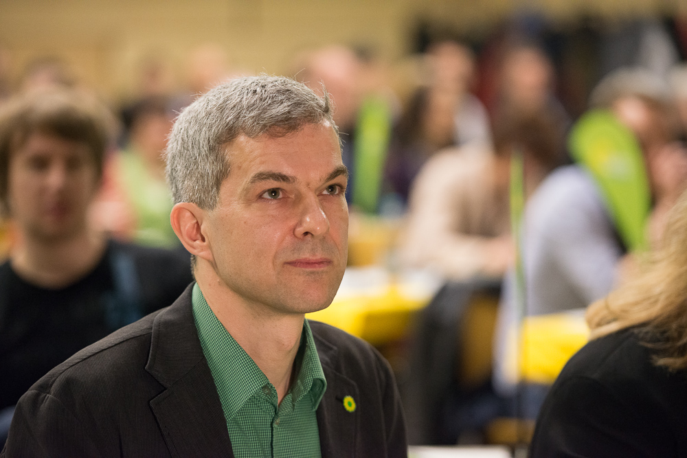 Volkmar Zschocke, German politician